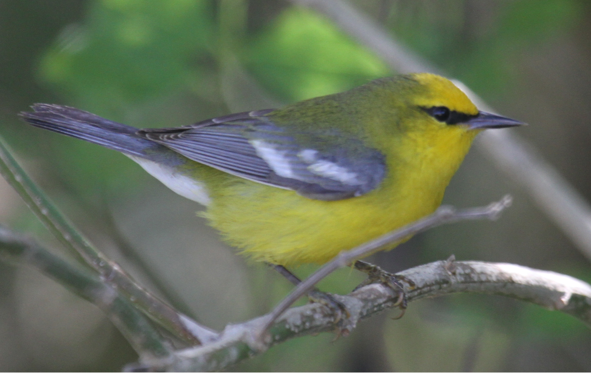 Blue-winged Warbler, Vermivora cyanoptera. South Padre Island, Texas